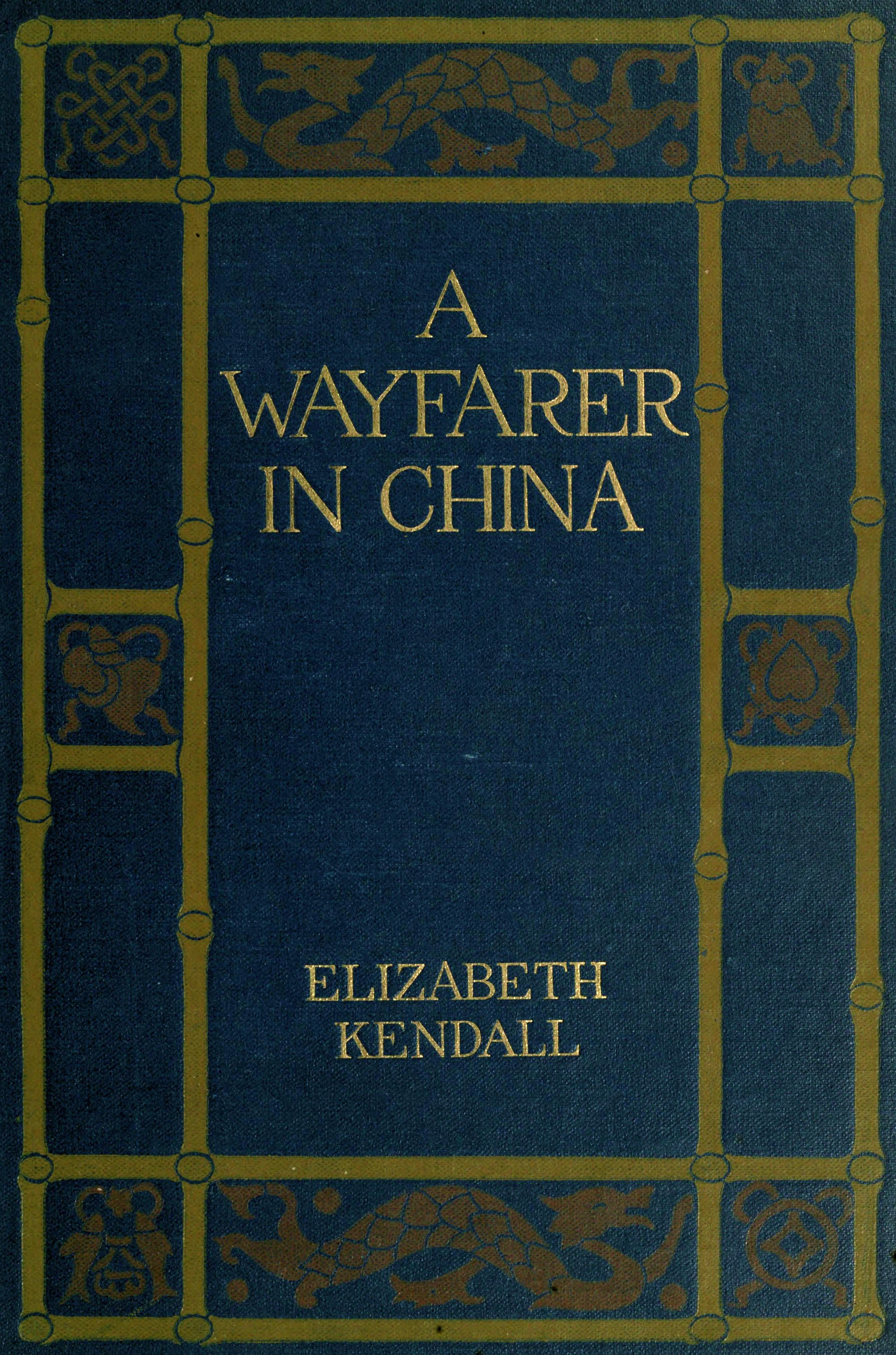 pg 1 of book